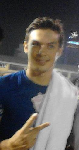 Misagh Bahadoran at Cebu Sports Stadium